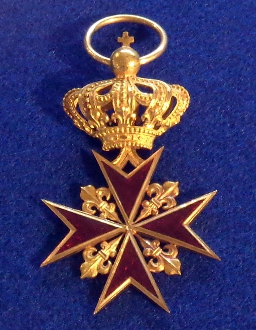 Order of Saint Stephen, badge. Grand Duchy of Tuscany. The exhibition of the Tallinn Museum of Orders of Knighthood, Estonia.